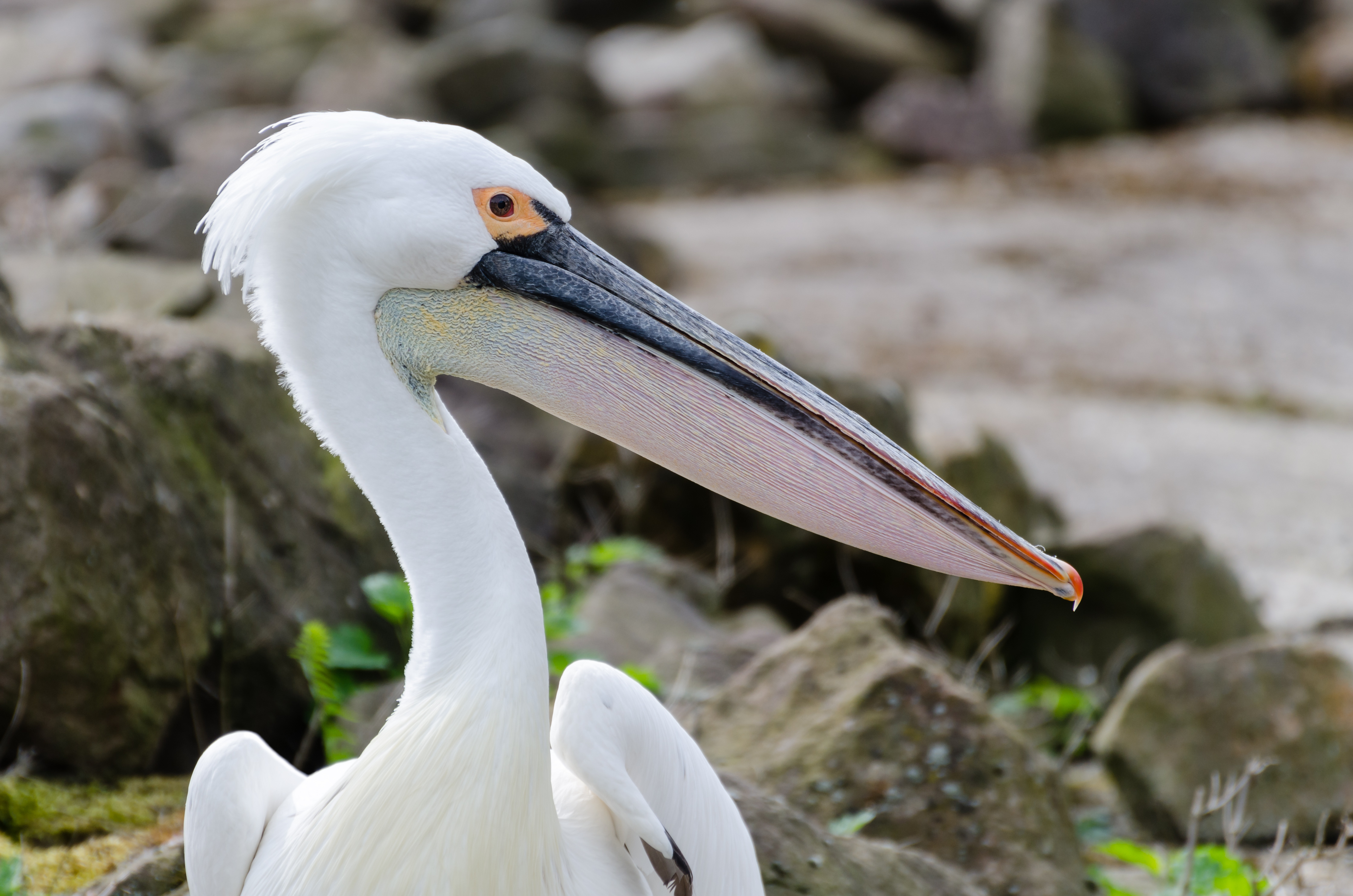 Hybrid of Great White and Dalmatian Pelican (P. crispus × onocrotalus) in Gelsenkirchen Zoo.